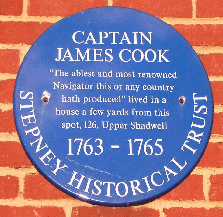 Blue sign for captain Cook